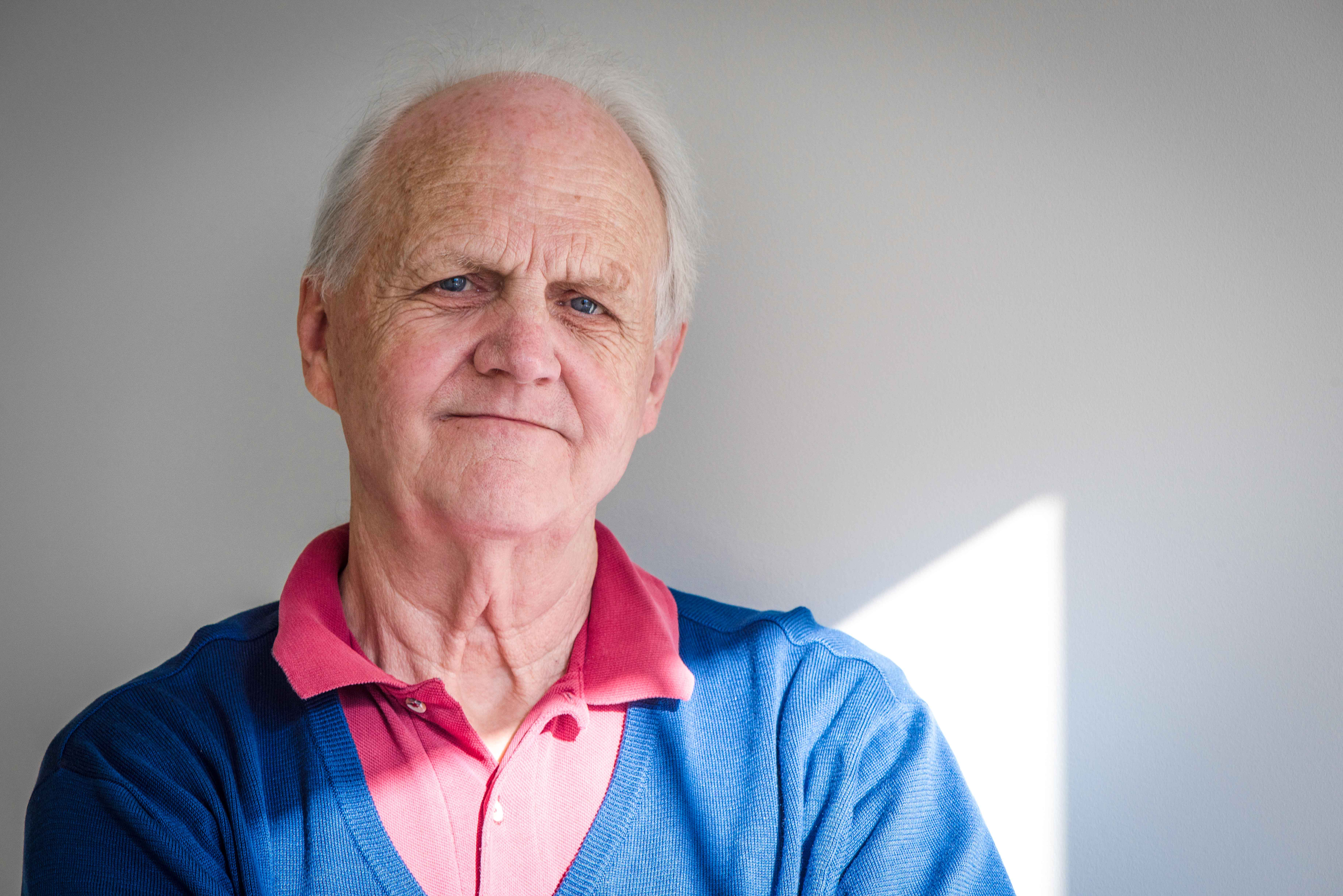 Professor Emeritus of History and Religious Studies at the University of Virginia. He is a specialist of the German Reformation and the history of Christianity in Early Modern Europe (c. 1400-1800).